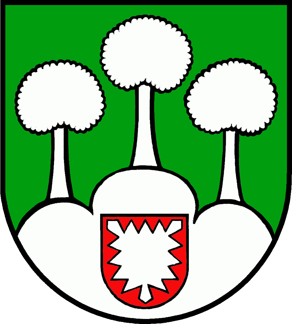 Coat of arms of the municipality Horst (Holstein) in Schleswig-Holstein, Germany.